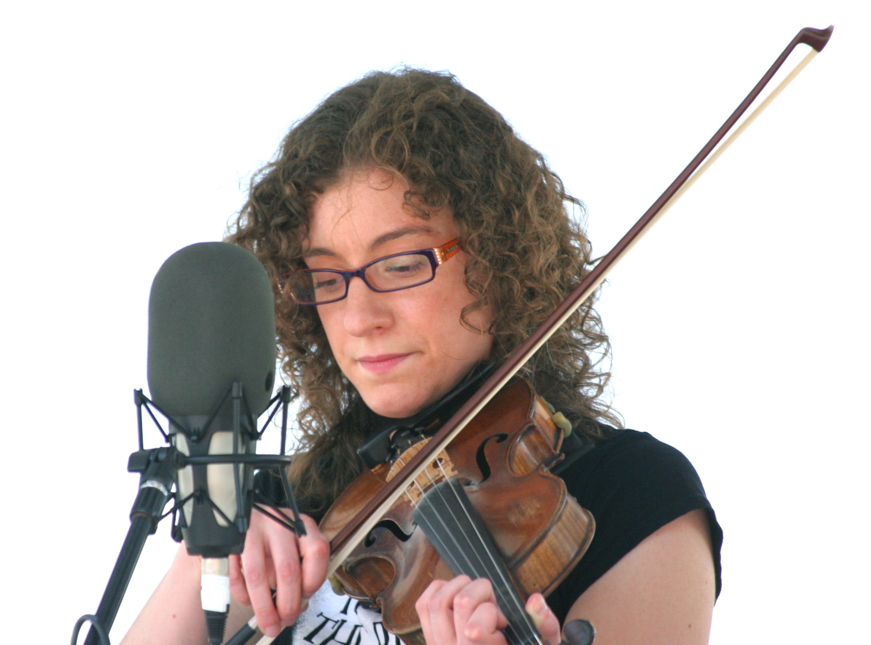 Rayna Gellert performing at MerleFest